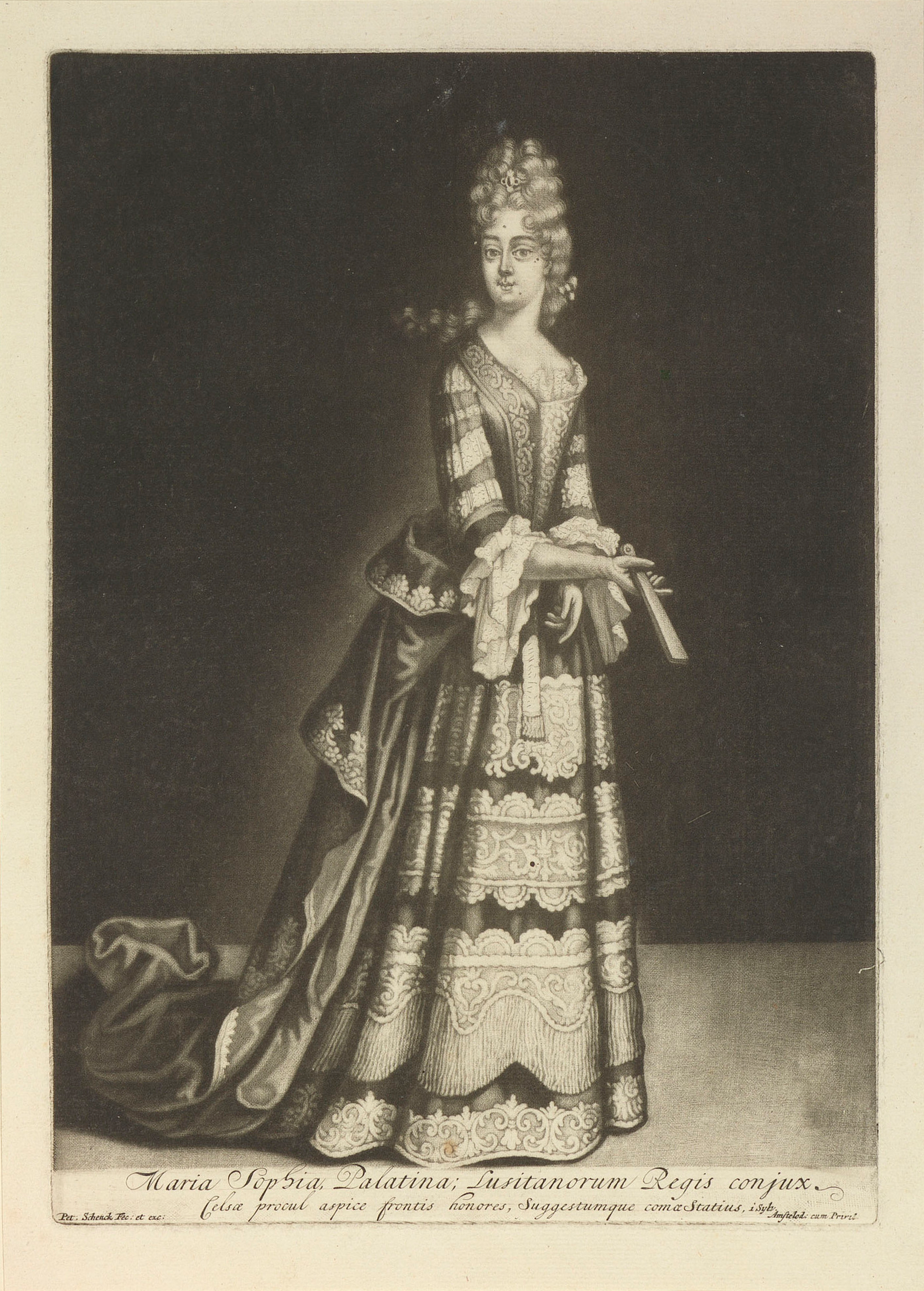 Maria Sophia of Neuburg, Queen of Portugal (1666-1699)